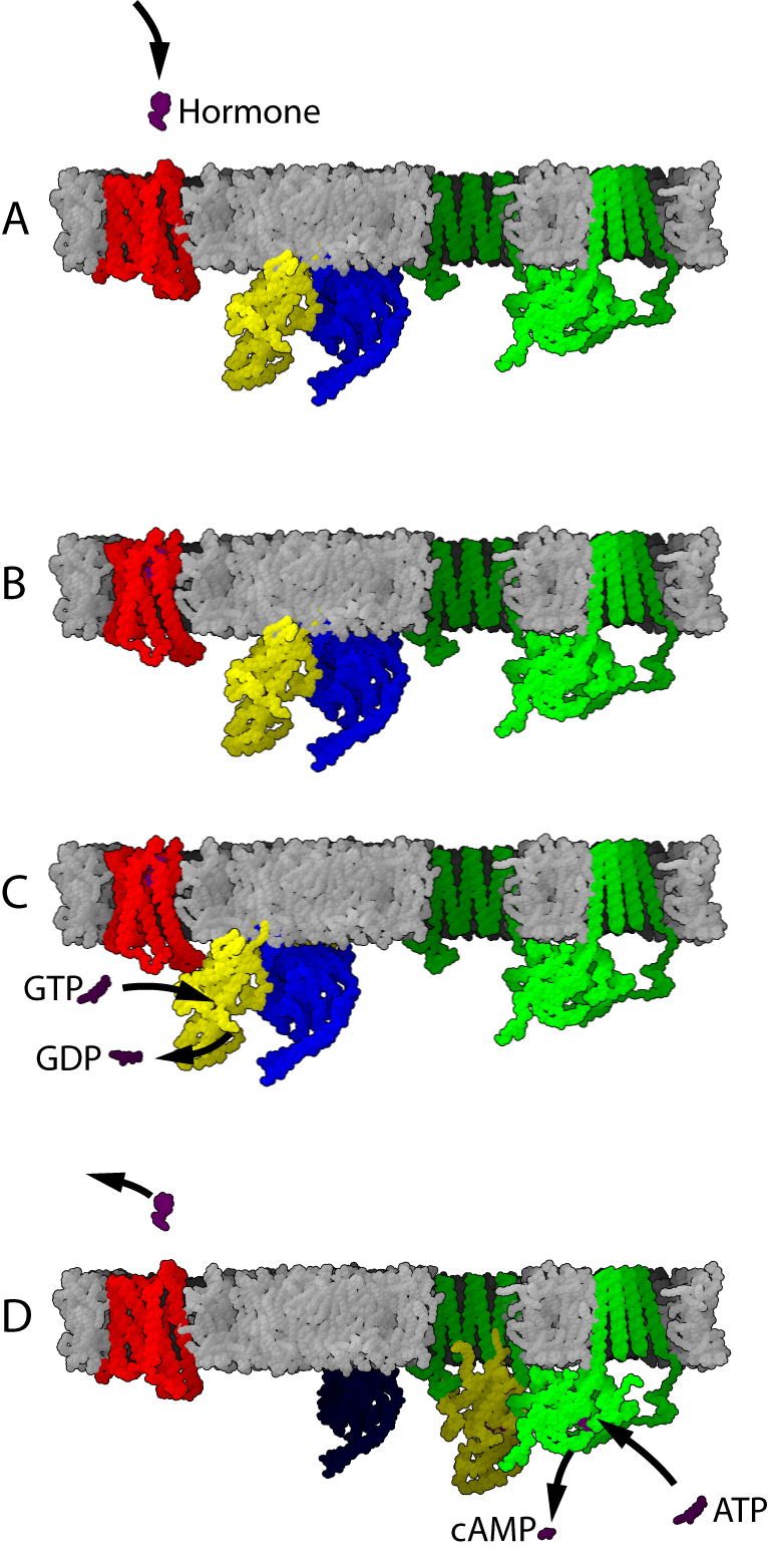 Based on PDB 1CUL, PDB 1gg2, OPM 2iql & OPM 2iqo and the Heller/Schaefer/Schulten lipid bilayer coordinates.